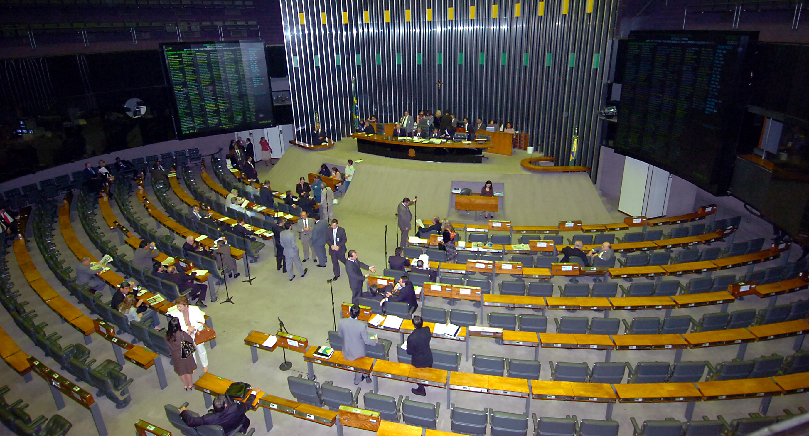 Brazilian Chamber of Deputies.